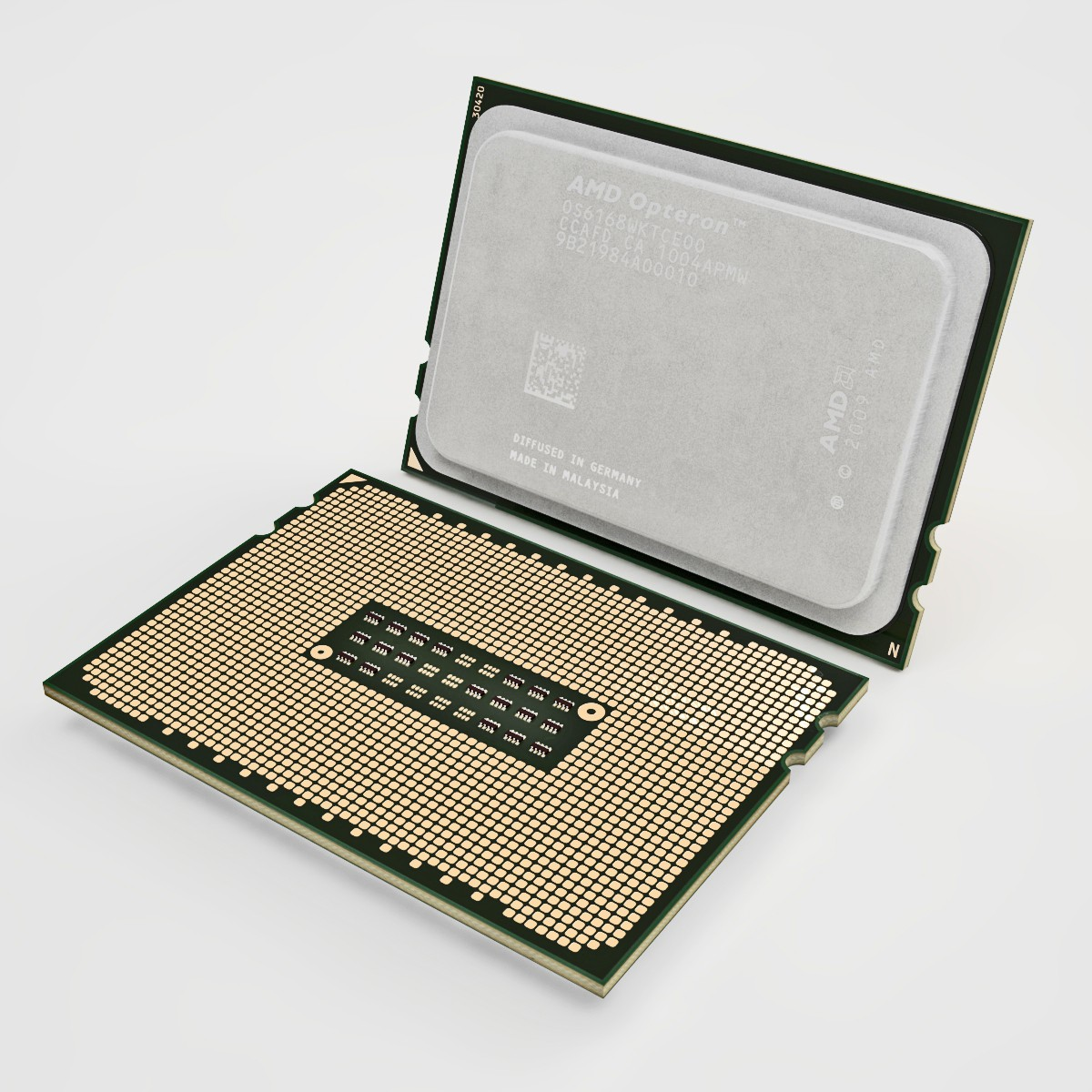 AMD Opteron 6168 magny cours server/workstation cpu for socket G34 1974. Note that the QR-Code on this render is not correct.